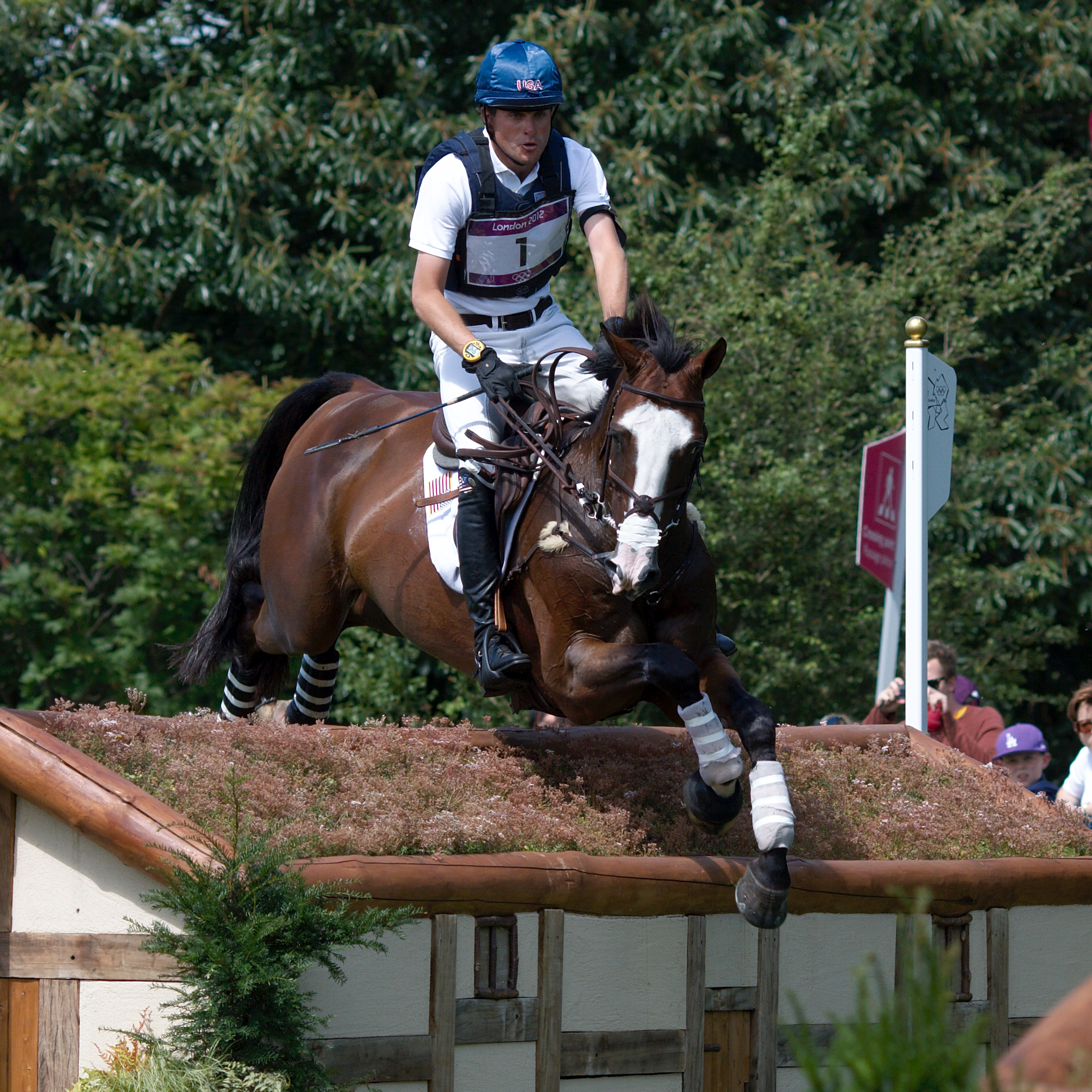 Boyd Martin and Otis Barbotiere, competing for USA, at fence 27, during the cross-country phase of the Eventing during the 2012 Olympic Games in Greenwich Park, London.